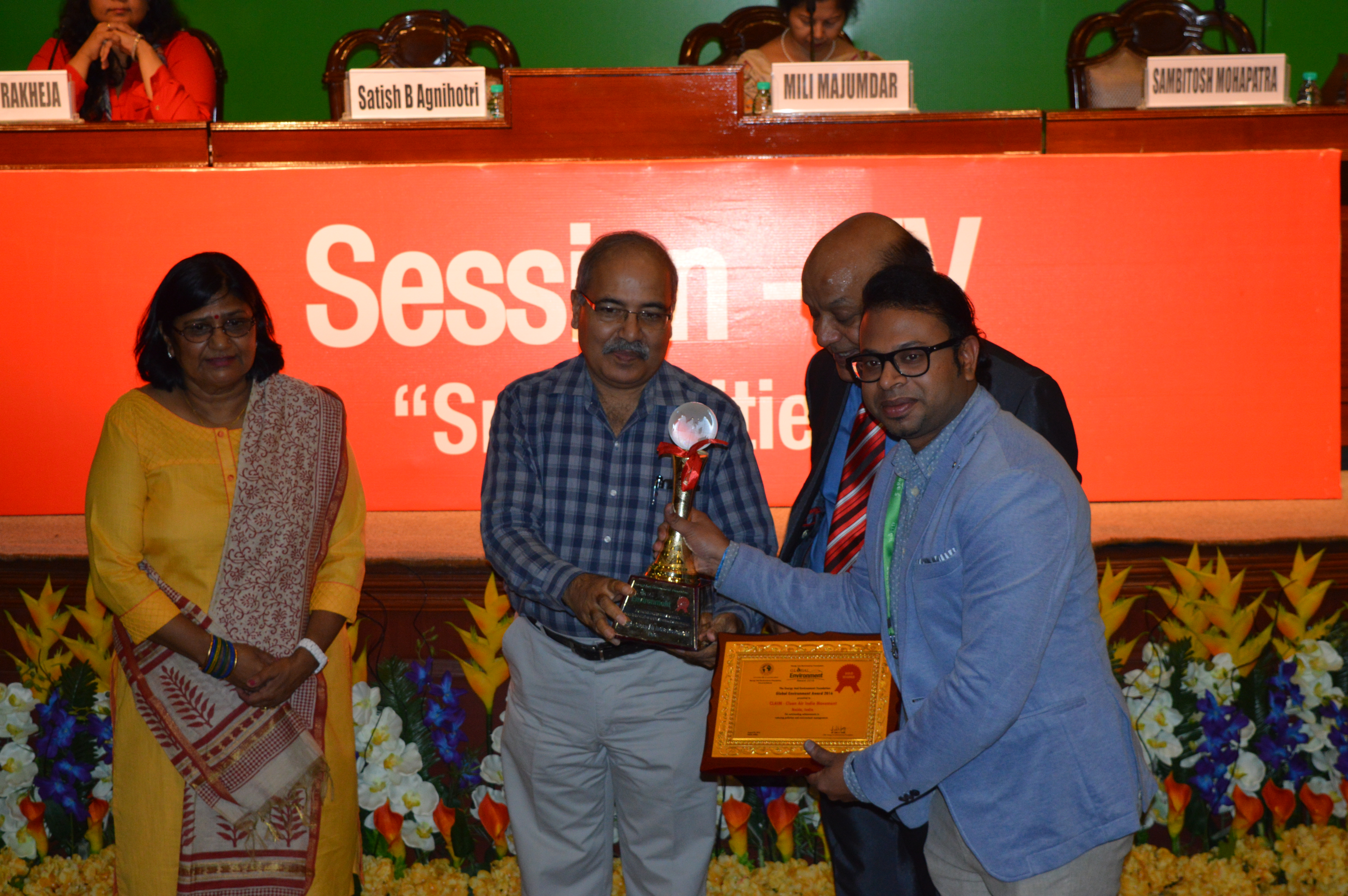 Clean Air India Movement (CLAIM) has been honoured with the prestigious “Energy and Environment Foundation Global Award 2016”, which recognizes significant contributions to raising awareness about toxic levels of air pollution in India and initiating ways to tackle the problem. Awarded by the Energy and Environment Foundation (EEF), the prize was awarded to CLAIM, a program launched by indoor air cleaning leader Blueair, during a ceremony at the 7th World Renewable Energy Technology Congress & Expo-2016 at Ashoka Hall, Manekshaw Centre, Parade Road (Near IGI Airport), New Delhi, India.